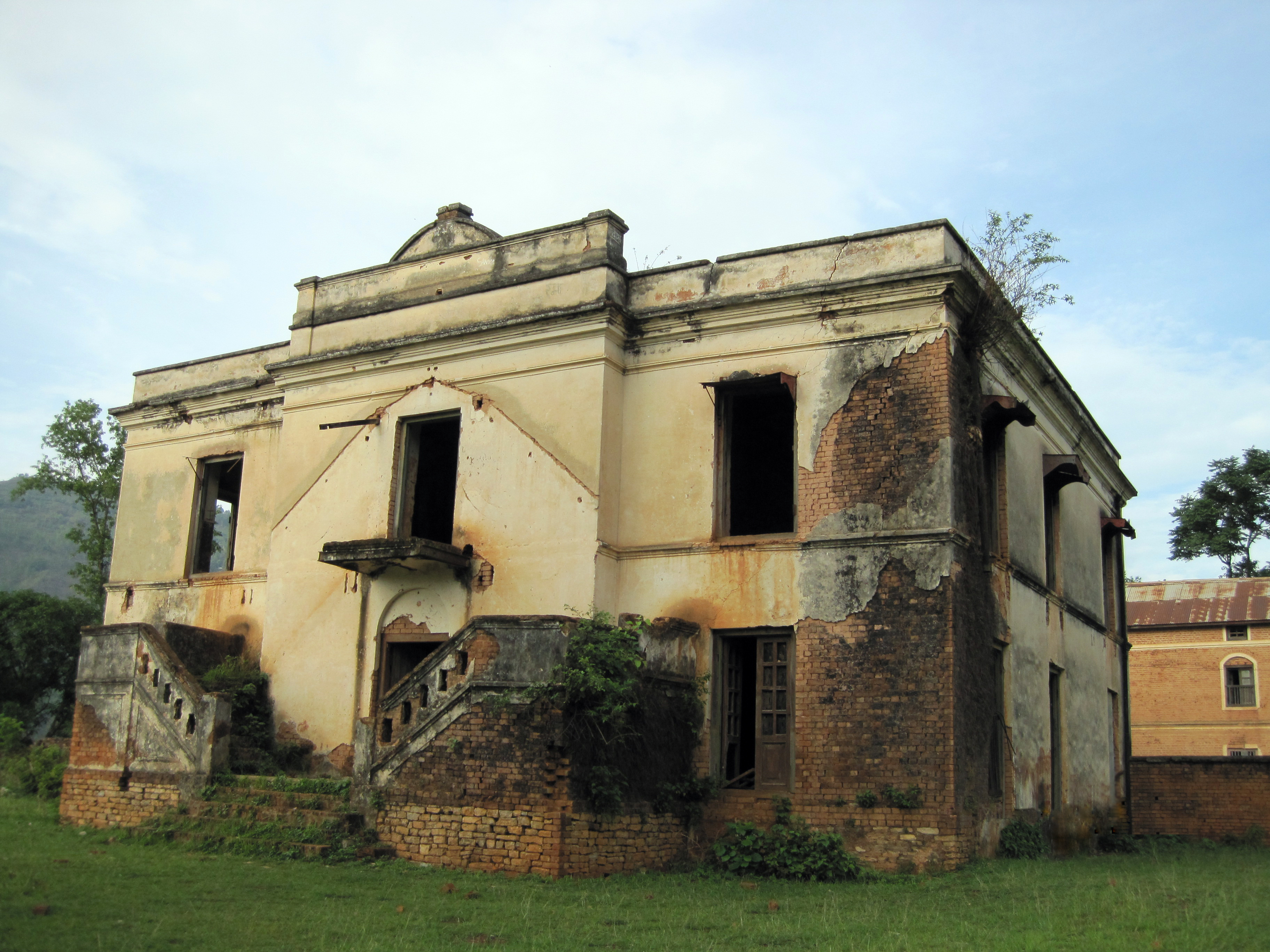 Argali Darbar Argali Palpa Nepal